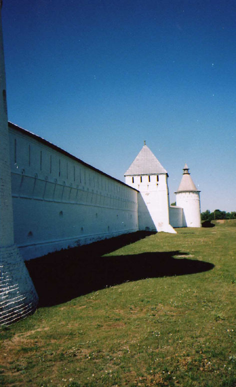 Makaryev Zheltovodsky Monastery